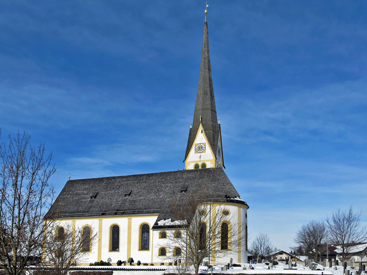 Village Schliersee, Church St.Martin